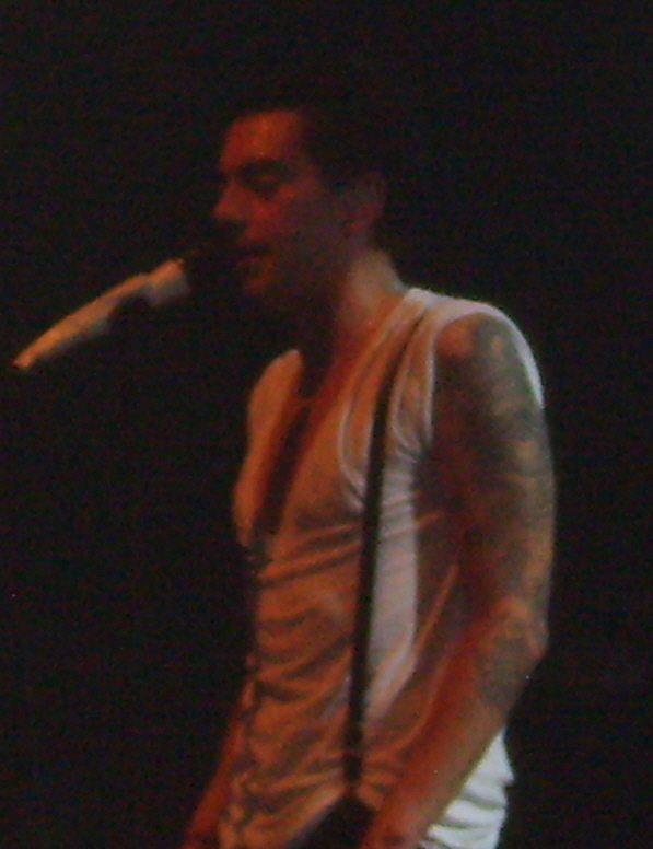 This is a more recent photograph of Ian Watkins, which I took (Seraphim Whipp) in 2007, and I would like to be attributed as the creator of this content :-).